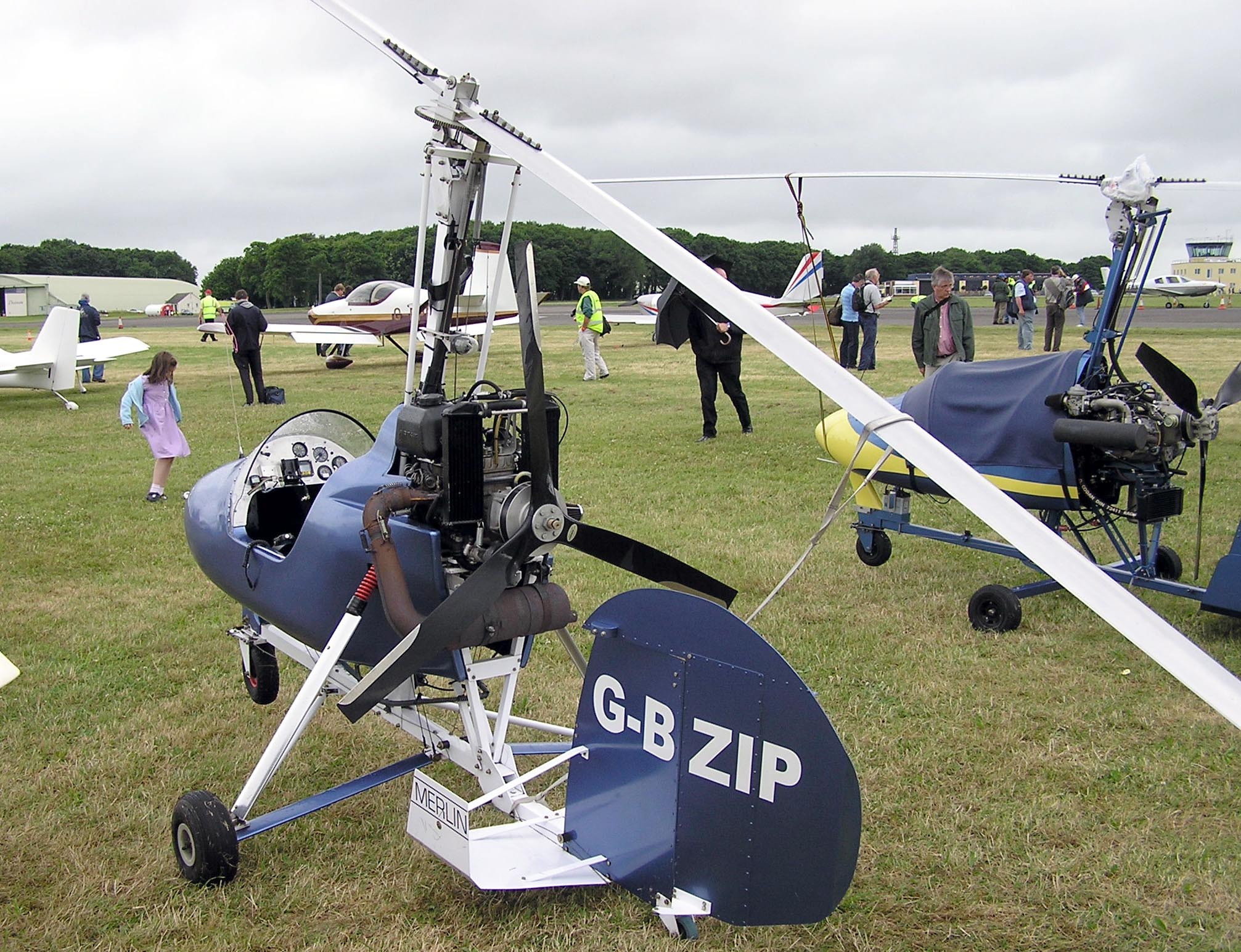 Single-seat Montgomerie Merlin B8MR autogyro at the Popular Flying Association Rally, Kemble Airfield, Gloucestershire, England. The aircraft is sold as a kit from their Ayrshire, Scotland, factory. Photographed by Adrian Pingstone on 2nd July 2005 and released to the public domain.